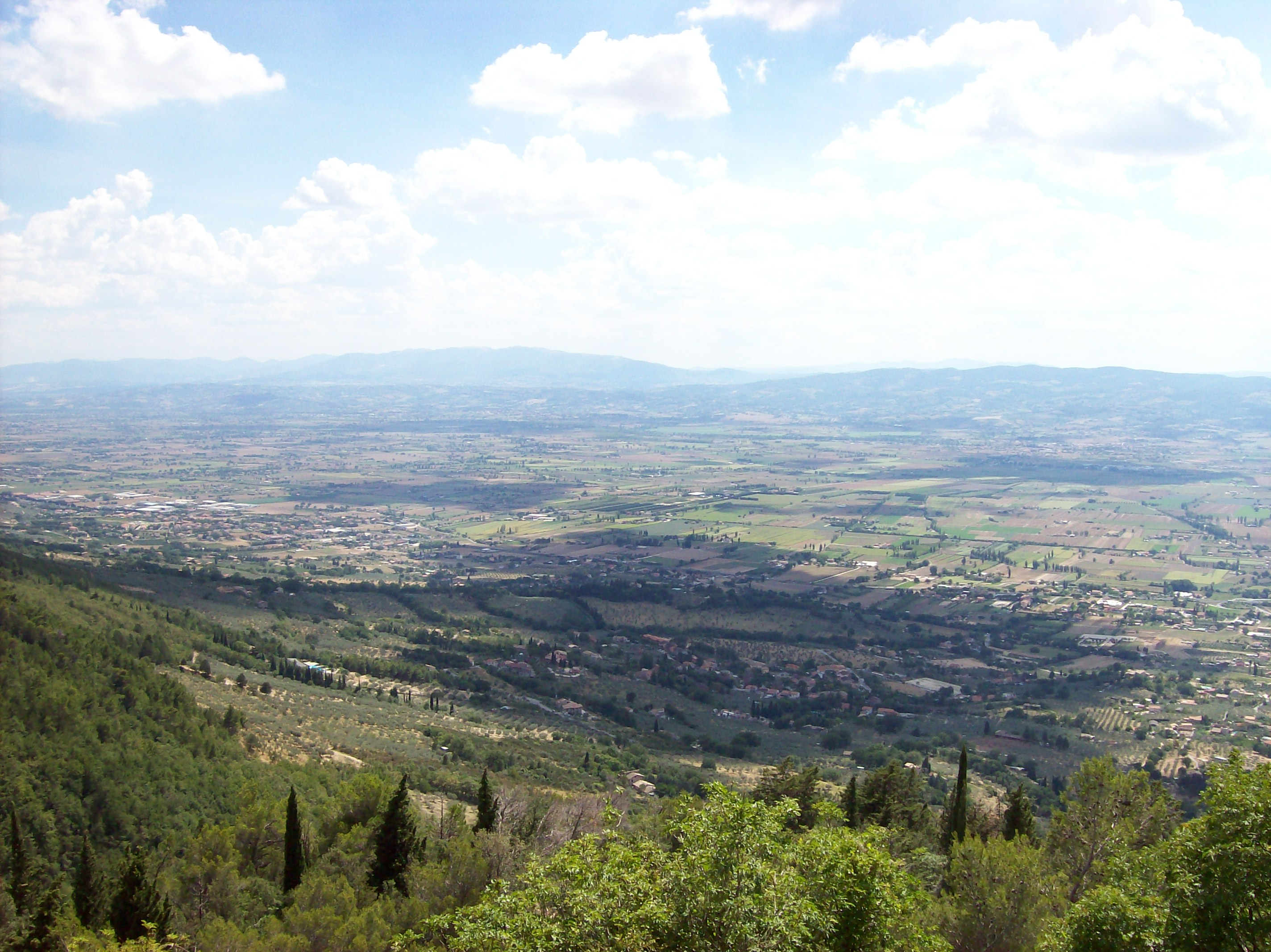 Photo taken by me in August 2006. Panorama from Subasio